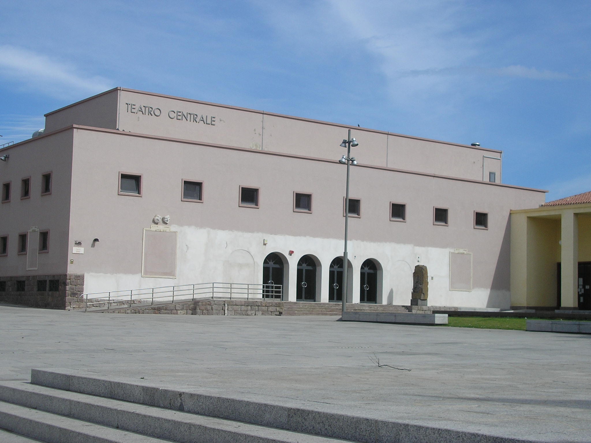 The Centrale theatre in Carbonia, Sardinia, Italy